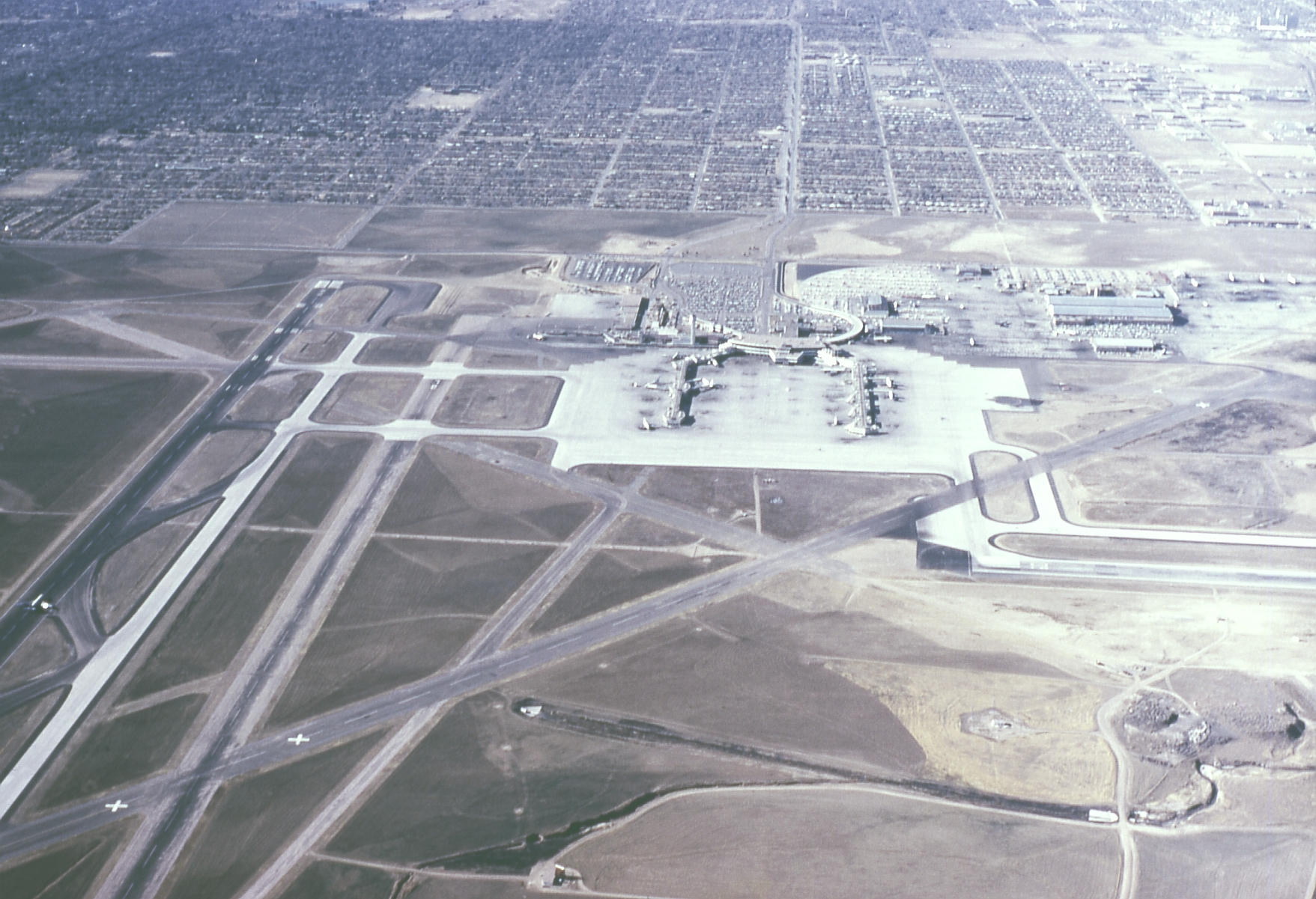 Aerial view of the old Denver Stapleton Airport. Looking from East to the West, showing Runways 26L and 26R, R35, and the Terminal Building with Concourses A, B, & C.